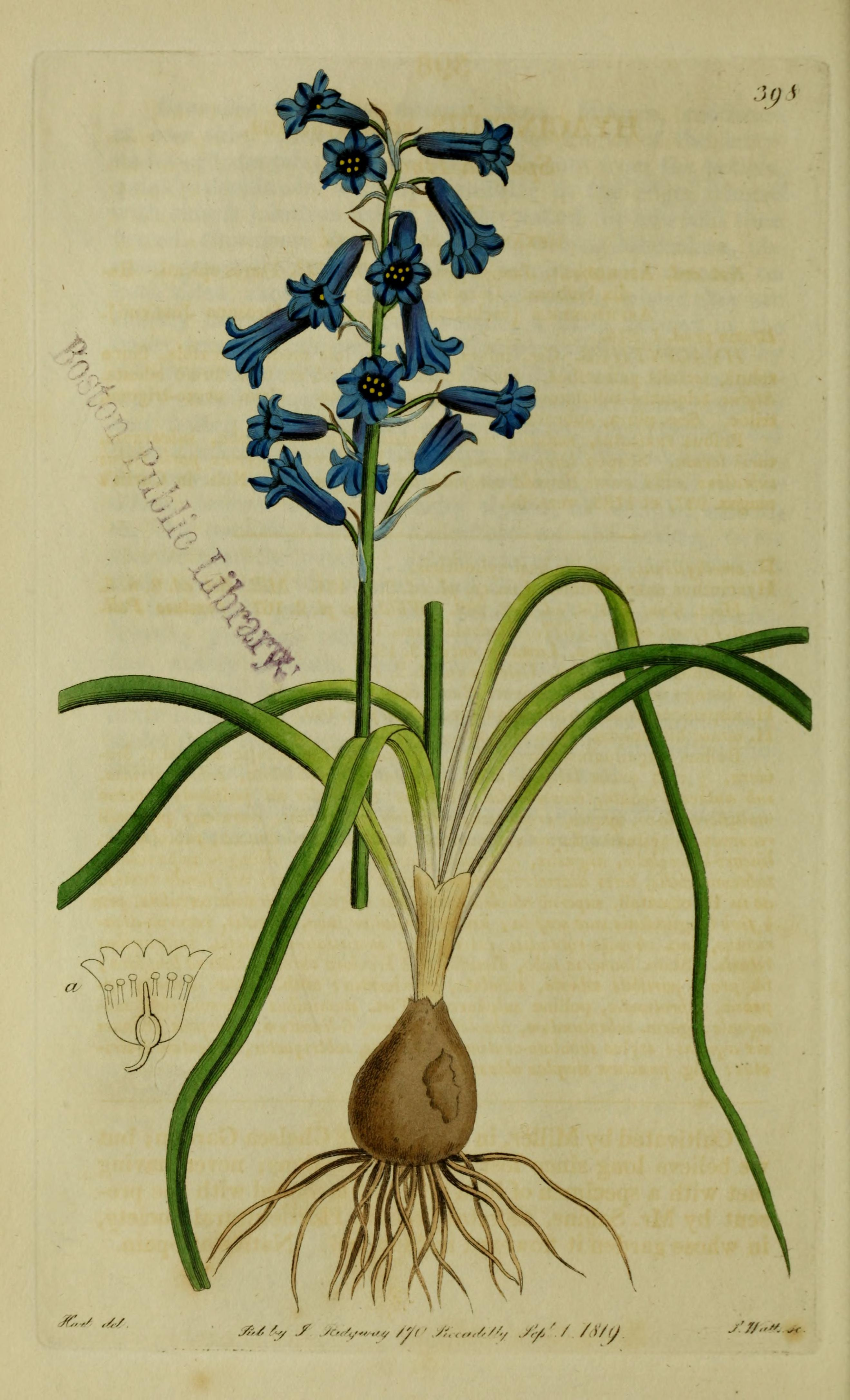 Title: The Botanical register consisting of coloured figures of Year: 1815 (1810s) Authors: Edwards, Sydenham, 1768-1819; Shrewsbury, John Talbot, Earl of, 1791-1852, former owner Subjects: Plants, Ornamental; Plant introduction; Botanical illustration; Botany; Floriculture; Botany Publisher: (London : s. n. ) Text Appearing Before Image: ' Text Appearing After Image: '